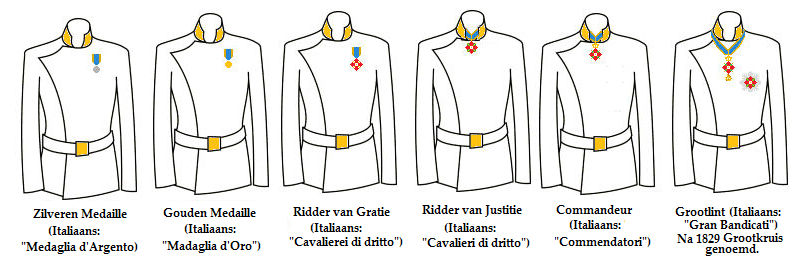 The Order of Saint George and the Reunion after 1819